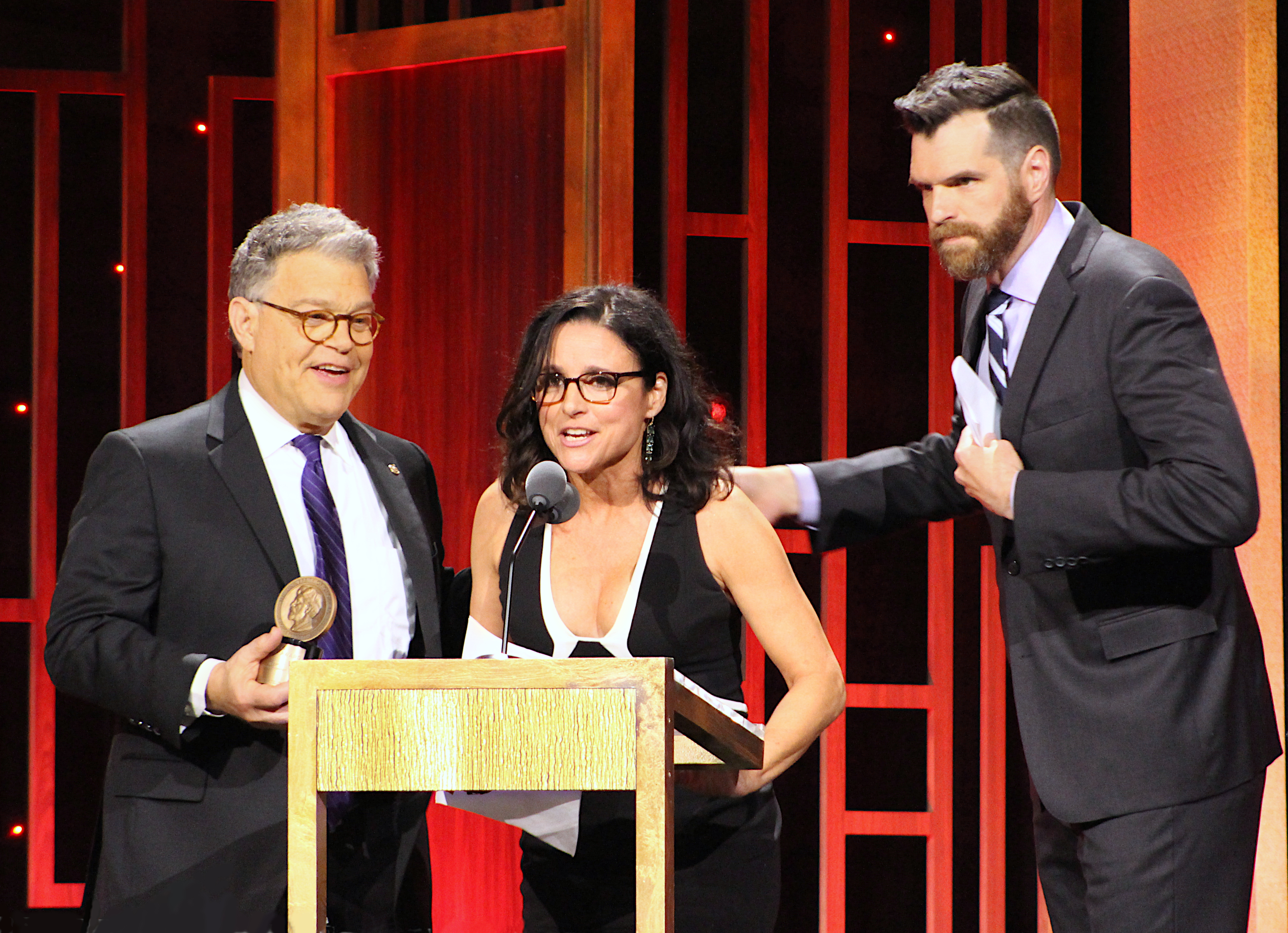 NEW YORK, NY - MAY 20: Al Franken presents award to Julia Louis-Dreyfus and Timothy Simons from VEEP during the 76th Annual Peabody Awards Ceremony at Cipriani, Wall Street on May 20, 2017 in New York City.